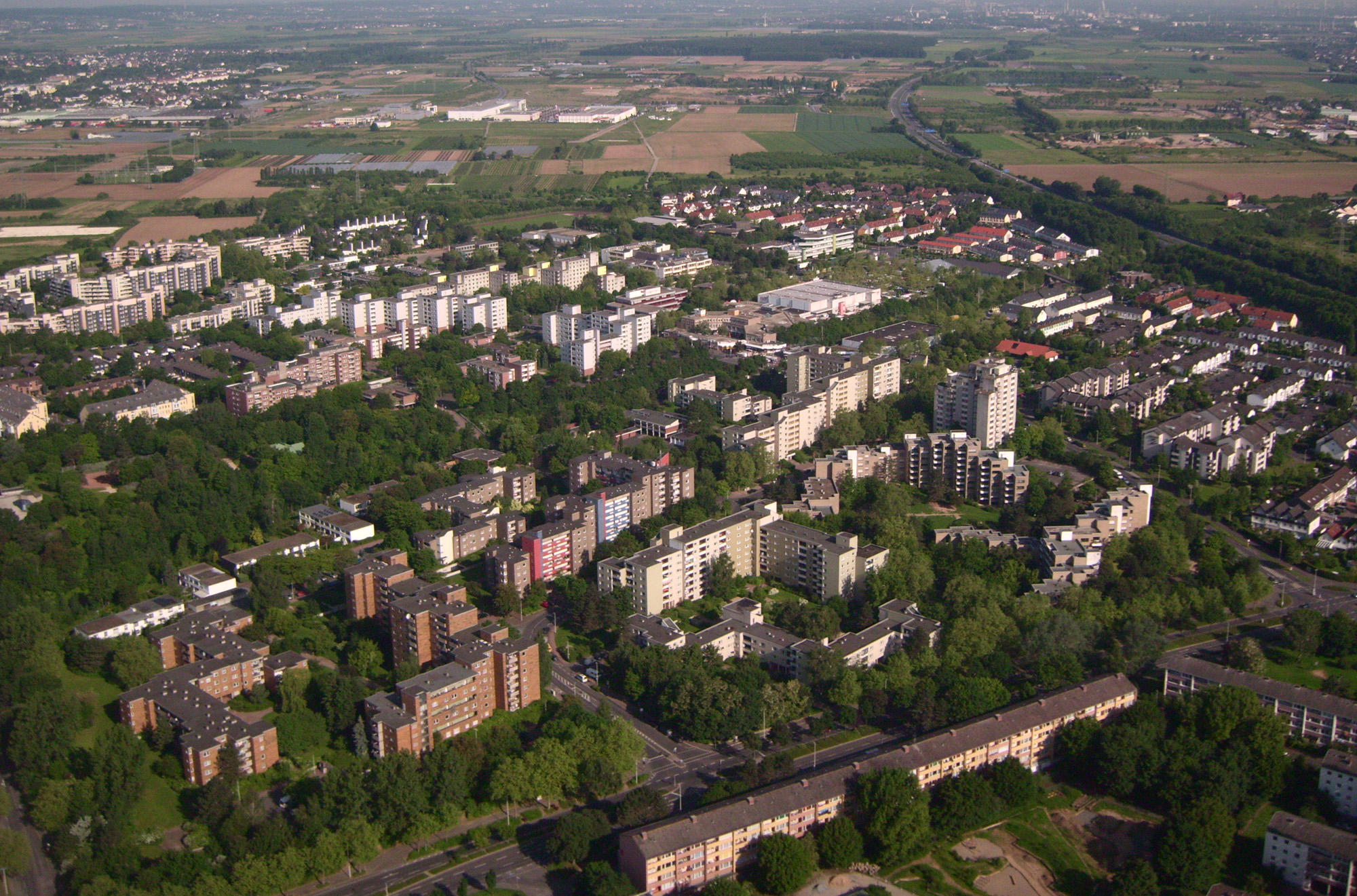 Aerial photography of Bonn Tannenbusch